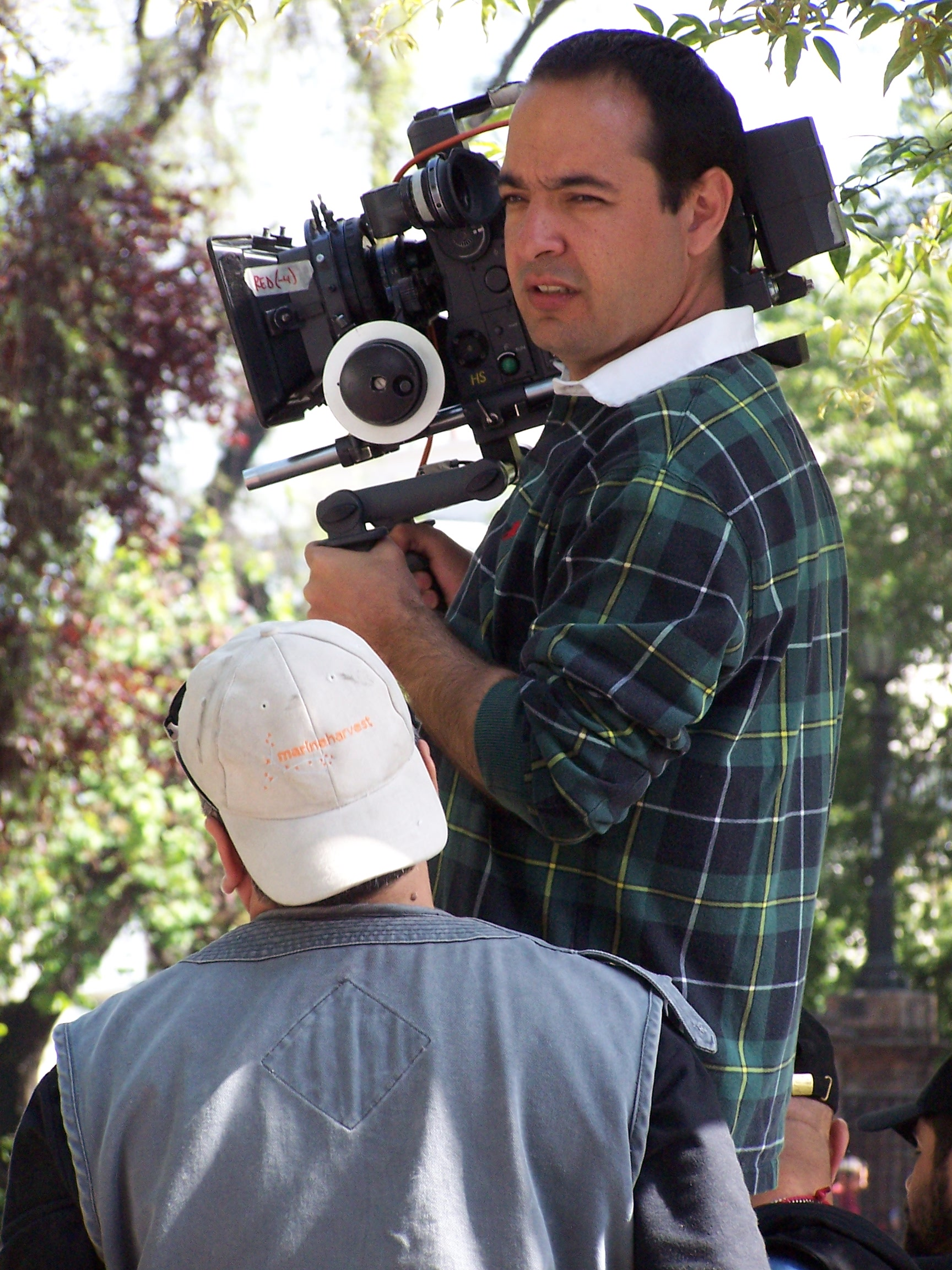 The man who took this photograph, Diego Allende, he gave this picture for free. He took this photograph during the making off Catalinas Kidnaping. He releases all rights.